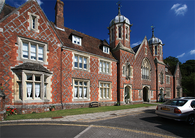 The Old Grammar School - Wimborne Minster The former Queen Elizabeth's Grammar School is an imposing Tudor style building completed in 1851. Grade II Listed.